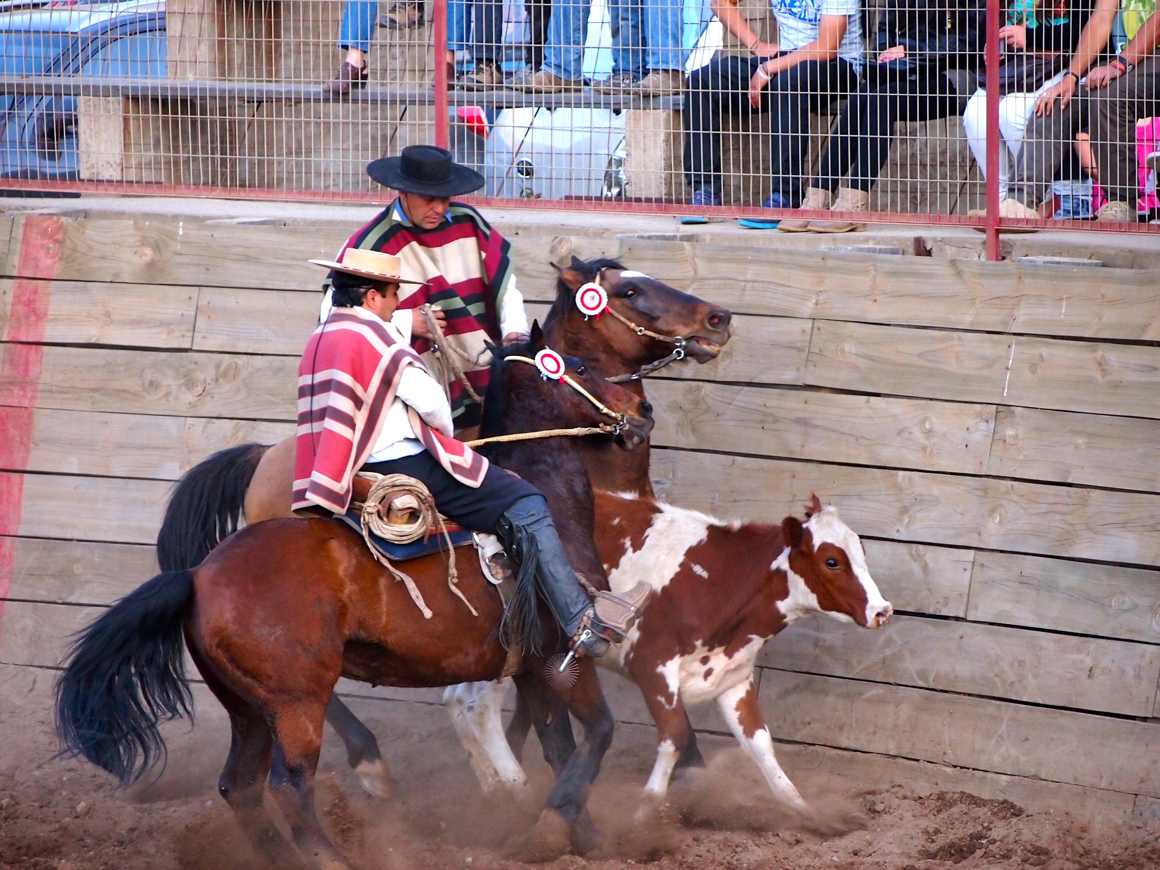 Chile